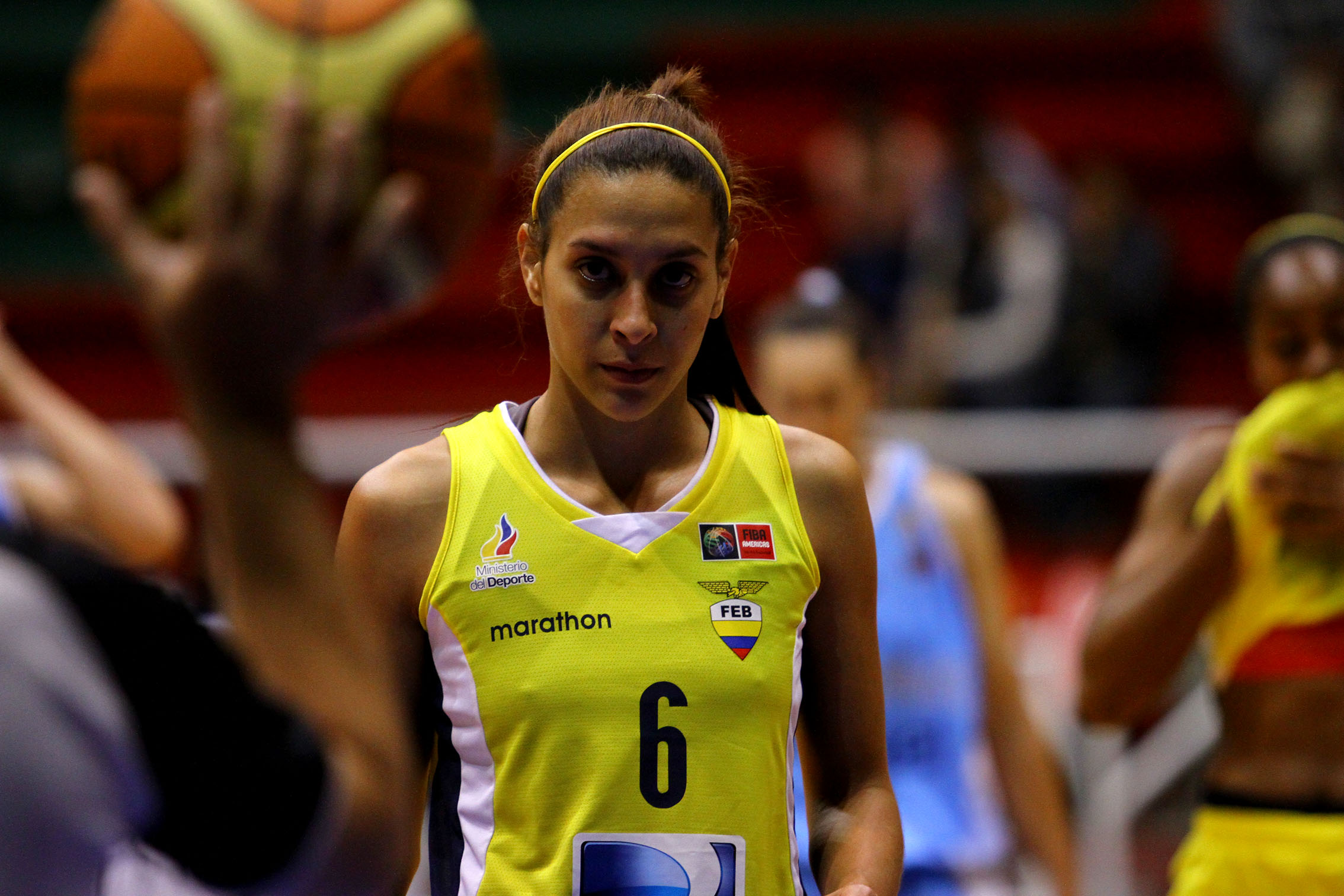 Rossana Mikaela Pazmiño Ludeña playing for Ecuador in the 2014 South American Basketball Championship for Women